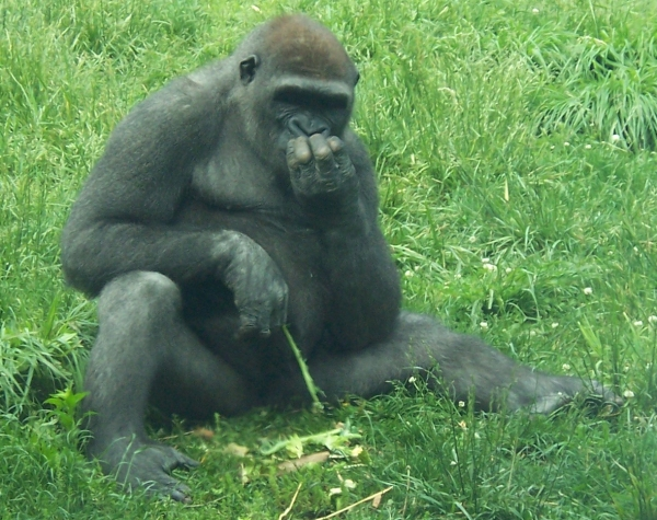 Western Lowland Gorilla